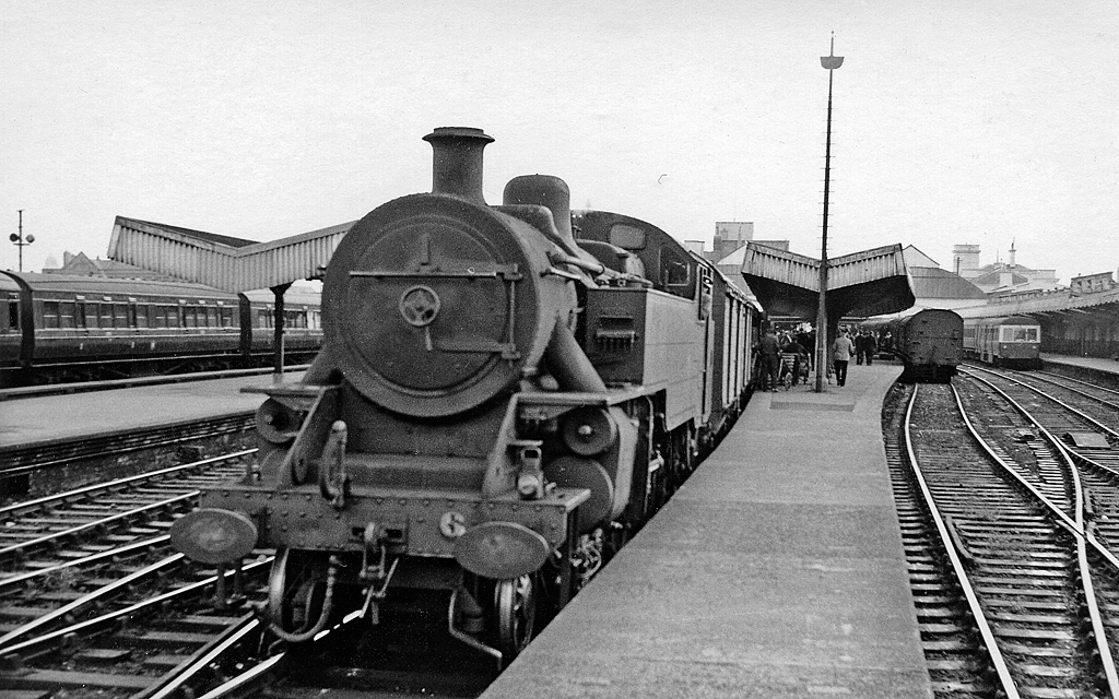 Belfast York Road Station, with a steam train. Near to Skegoneill, Cliftonville, Belfast County Borough, Shankill and Queens Island, Ireland. View southward, towards buffer-stops; NIR, former LMSR (NCC)(Belfast & Northern Counties Railway). York Road station was replaced on 17/10/92 by a new station at Yorkgate and on 28/11/94 the new cros-harbour line through Belfast Central was opened. The steam train, probably for Larne, is headed by a Class WT 2-6-4T No. 6.